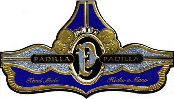 scan of Padilla Maduro cigar band